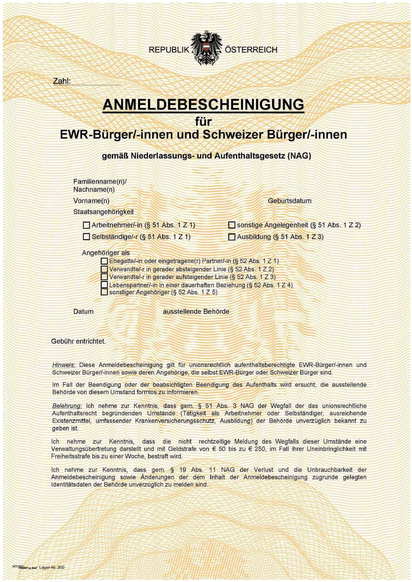 Registration certificate for EEA- and Swiss citizens (Austria)